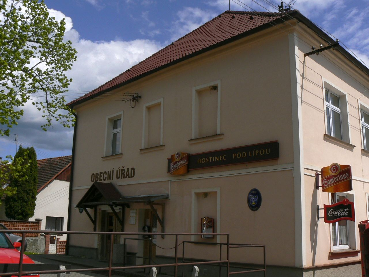 Municipal office and restaurant in Letiny, Plzeň-South District, Czechia